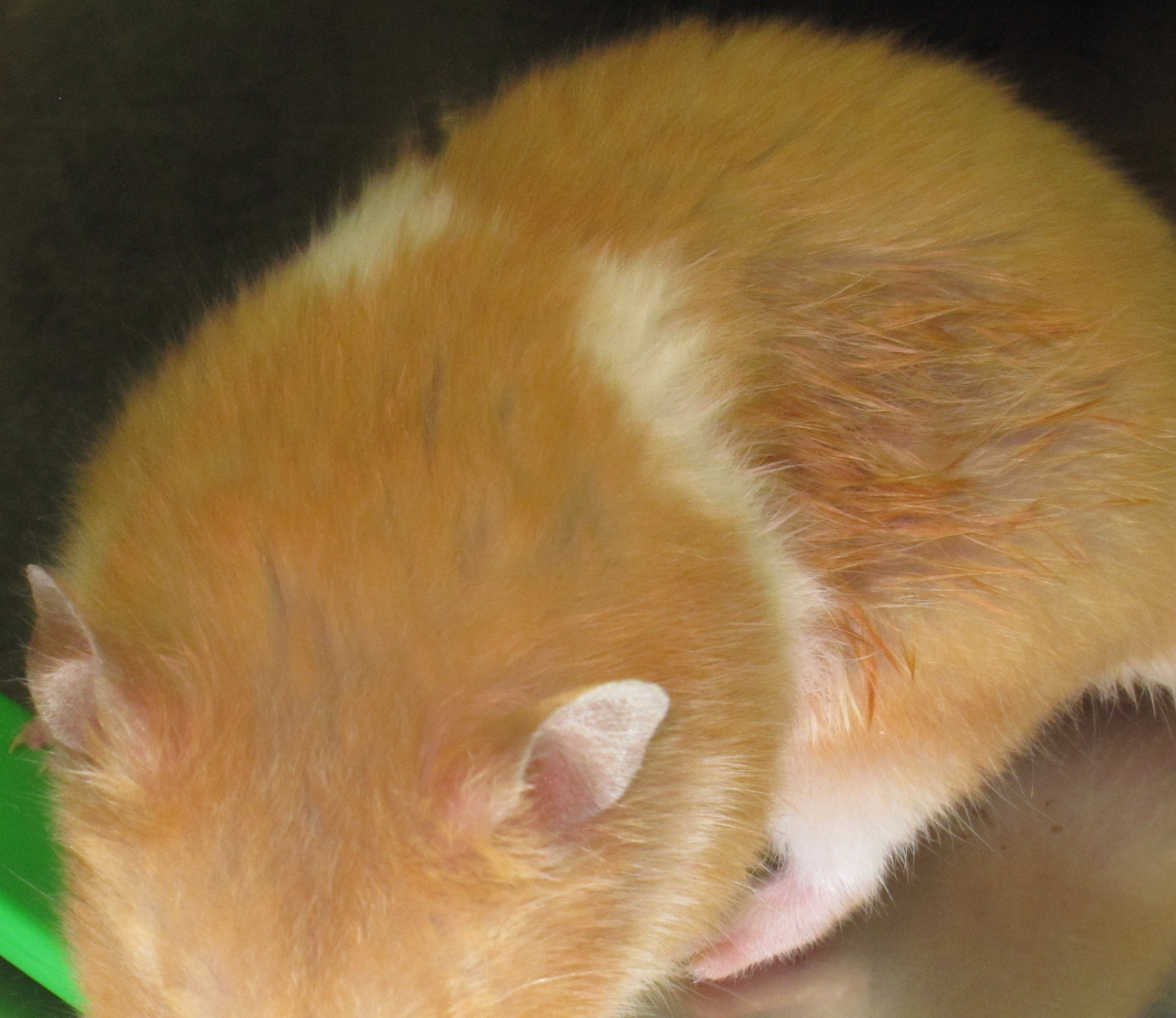 flank gland in a golden hamster